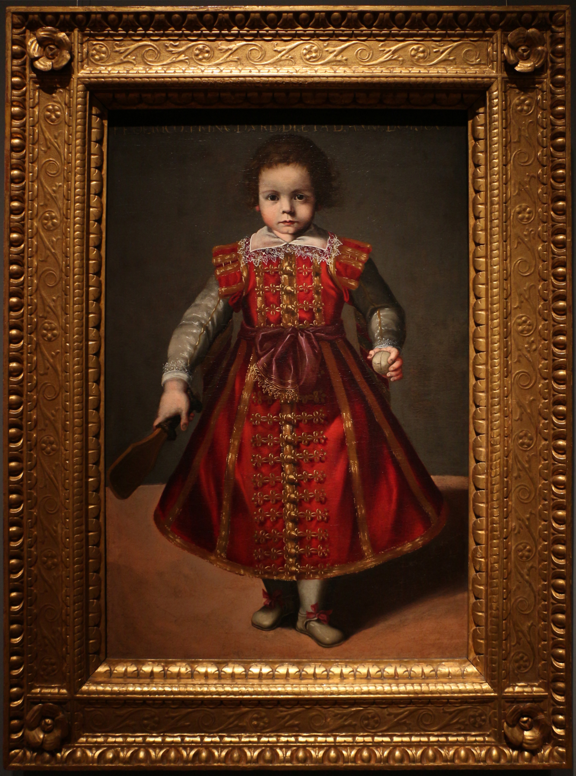 Paintings in the Detroit Institute of Arts